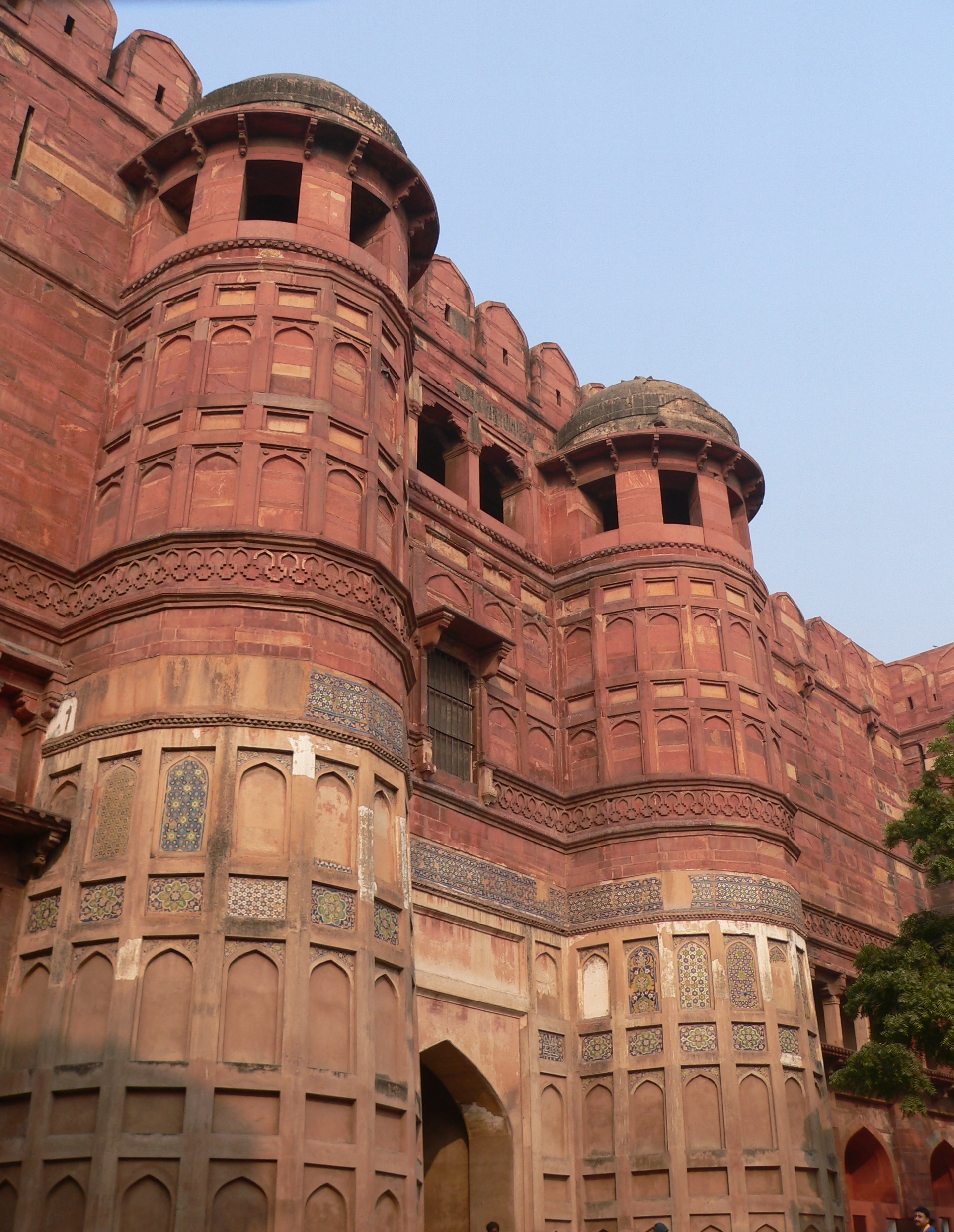 Author: Florent AIDE, Description: The third door of the Fort, behind this door is the garden with the Mosq.